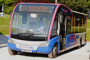 A new Optare Solo SR for the Preston park and ride. It is fleet number 1 (PN08 SVK).